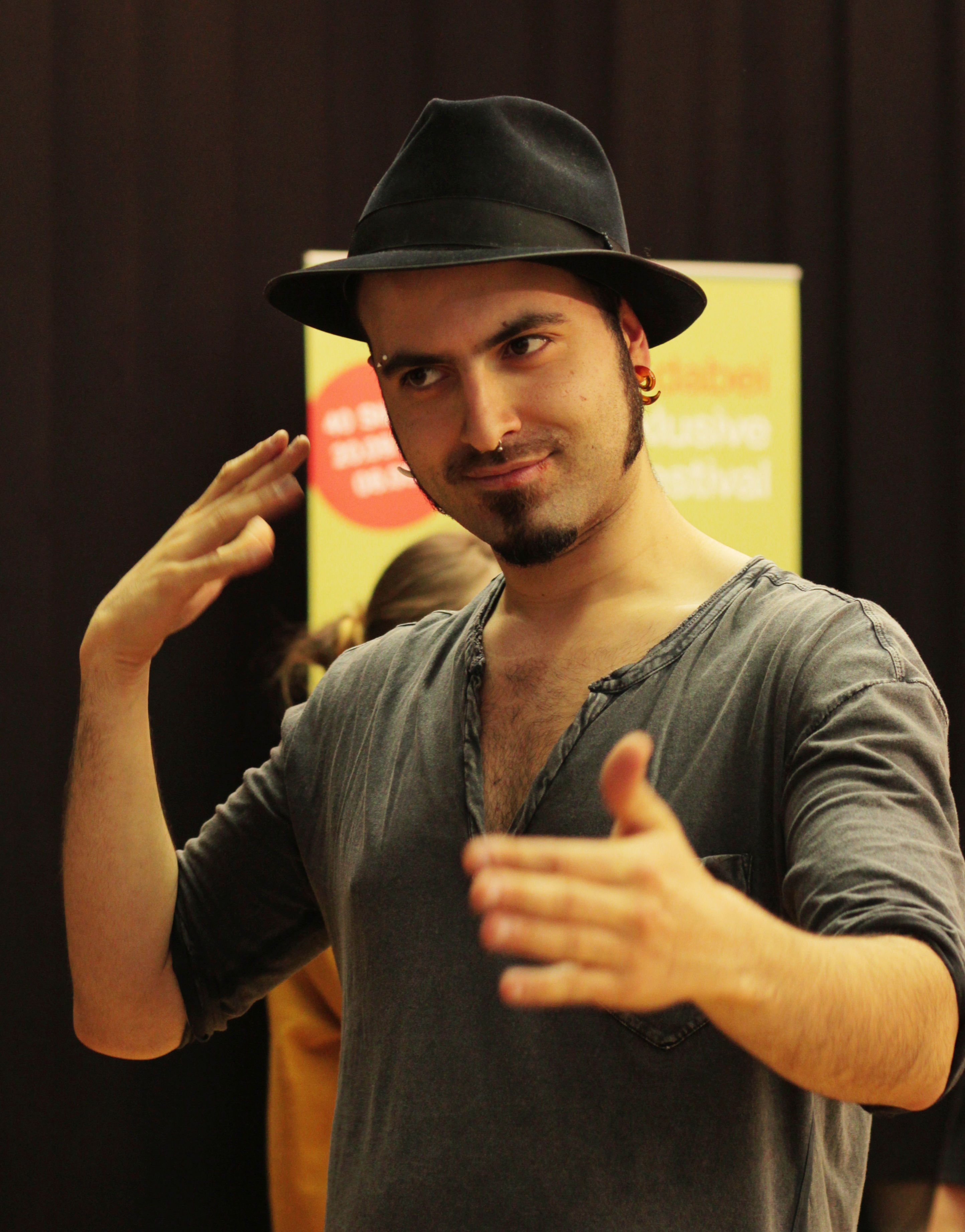 Winner of Berliner Sign Slam: Ace Mahbaz.